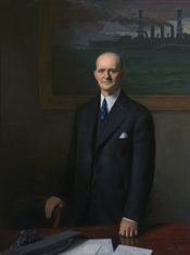 Portrait of former Congressman Carl Vinson of Georgia, 1943.